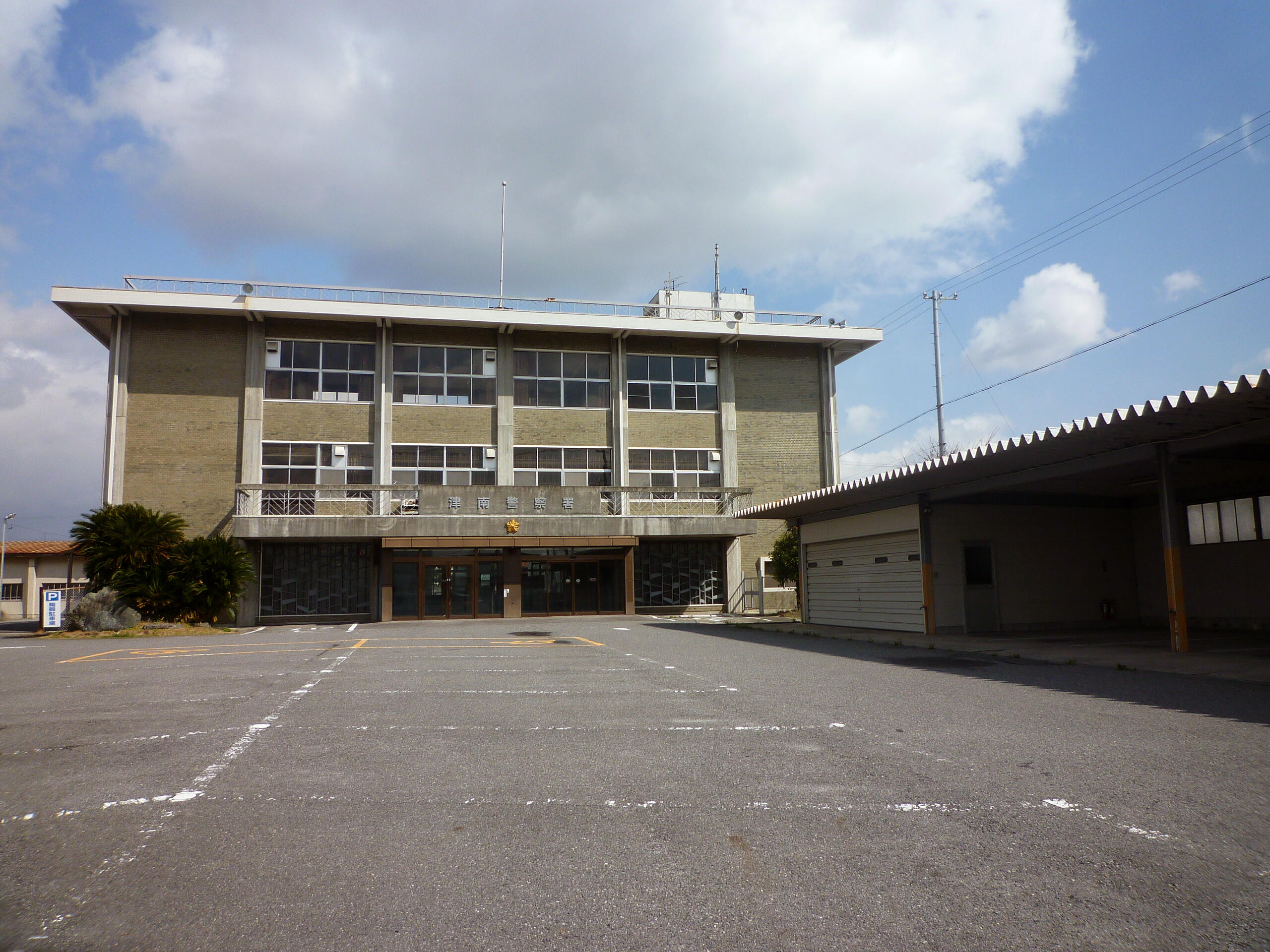 The Old "Tsu-Minami Police Staion" in Hisai-Nakamachi, Tsu City, Mie Prefecture, Japan.